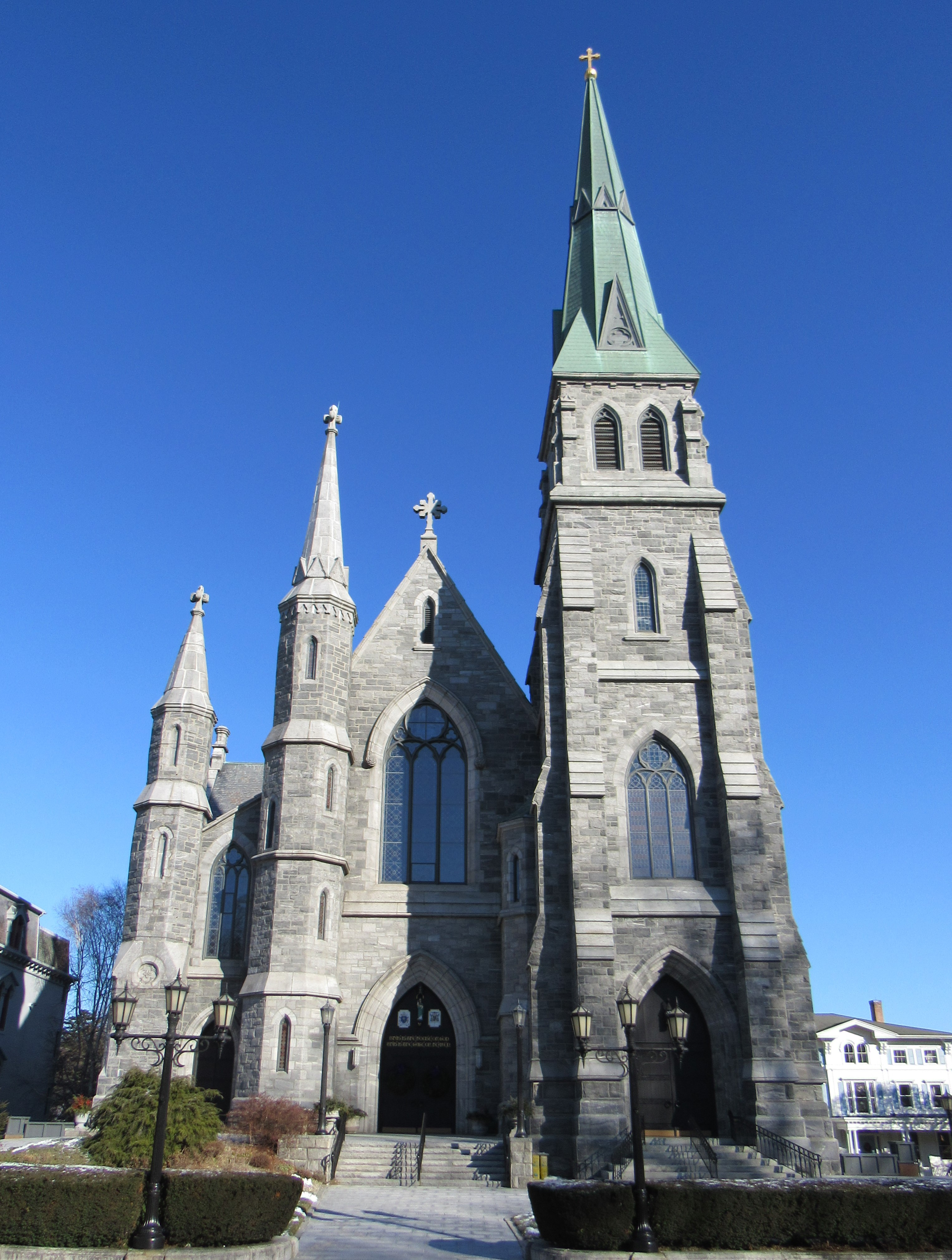 Cathedral of Saint Patrick in Norwich, Connecticut.